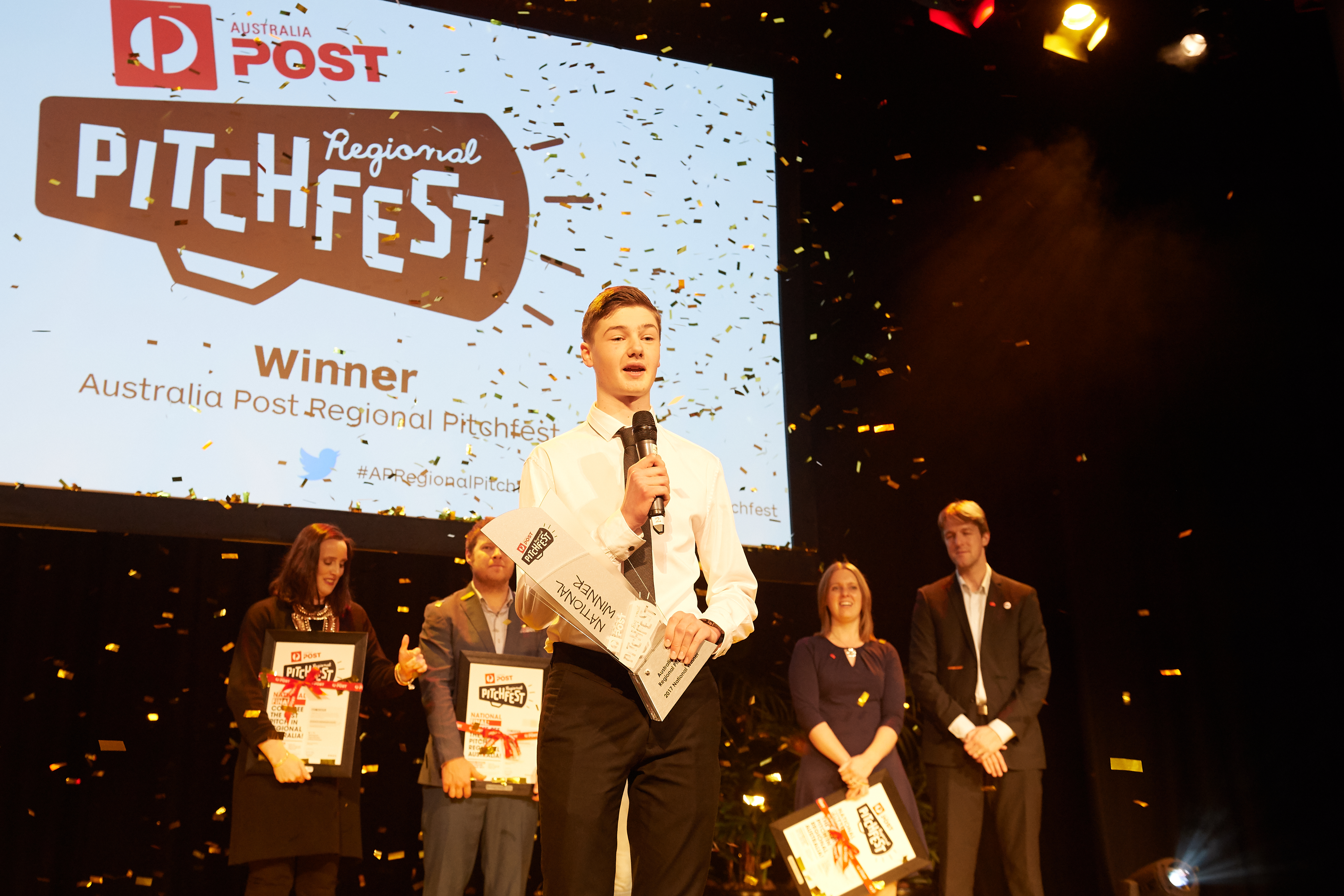 Michael Nixon wins the National Finals of the Australia Post Regional Pitchfest on August 18, 2017 at the Wagga Wagga Civic Theatre.